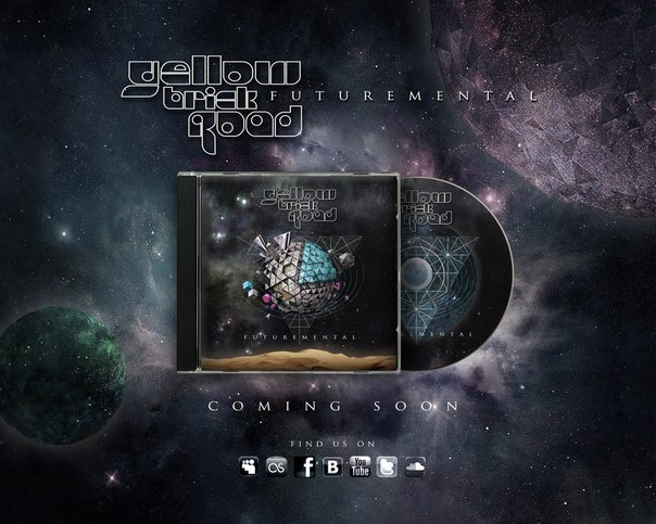 ebr